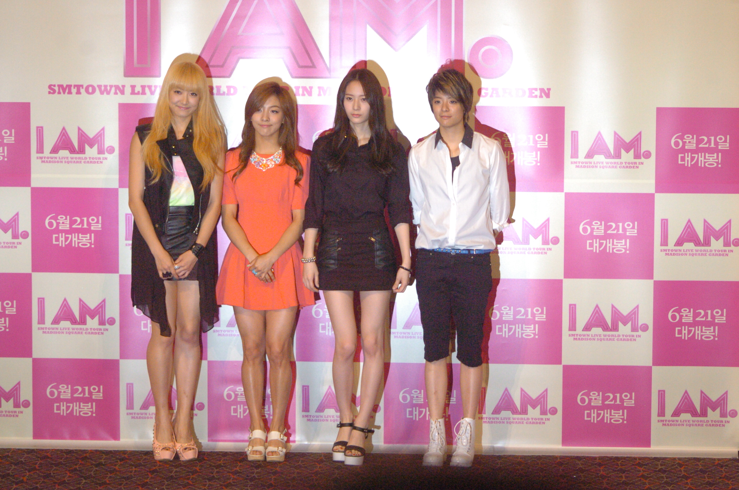 Victoria, Luna, Krystal et Amber from south-korean girl group F(x) at the preview of documentary I AM in 2012